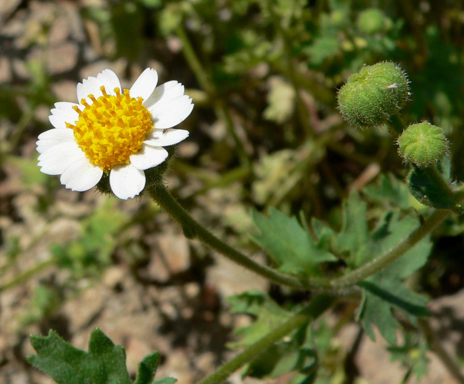 Photo of Perityle emoryi in Palm Canyon, California